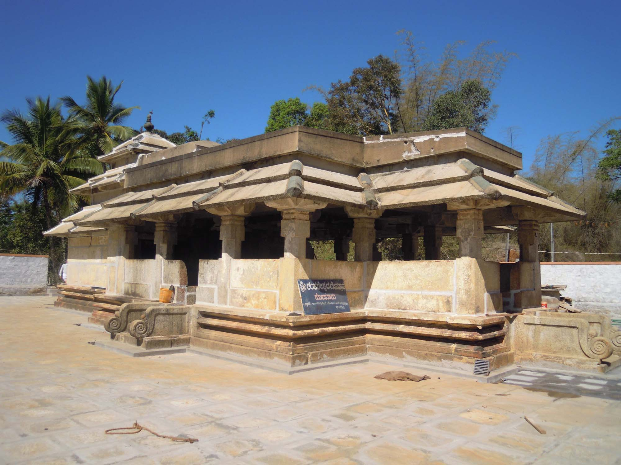 Beautiful temple of South India